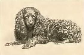 Photo of Goblin, a Toy Trawler Spaniel.